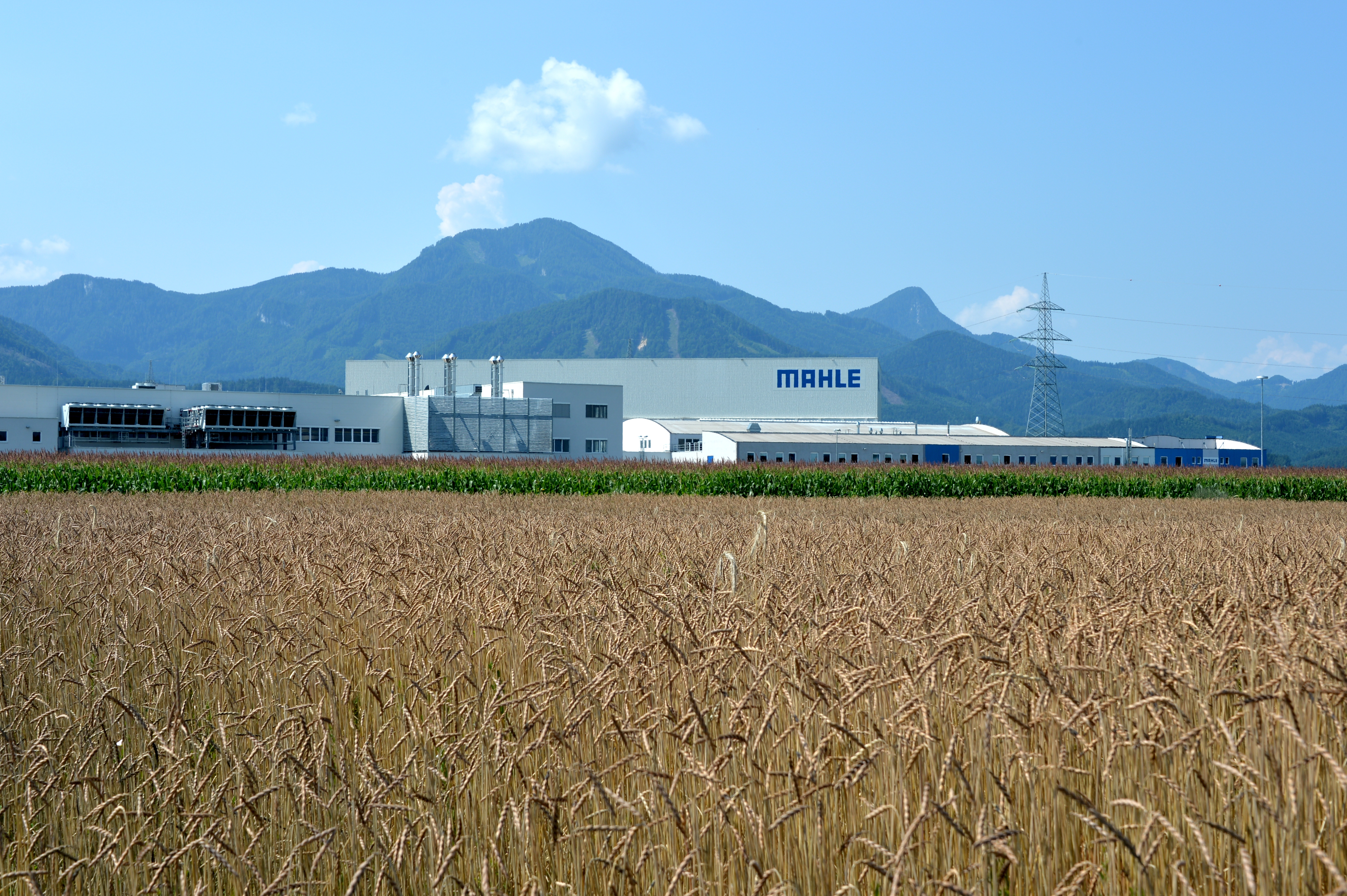 Spelt field and Mahle Filtersystems Austria, municipality Feistritz ob Bleiburg, district Voelkermarkt, Carinthia / Austria / EU